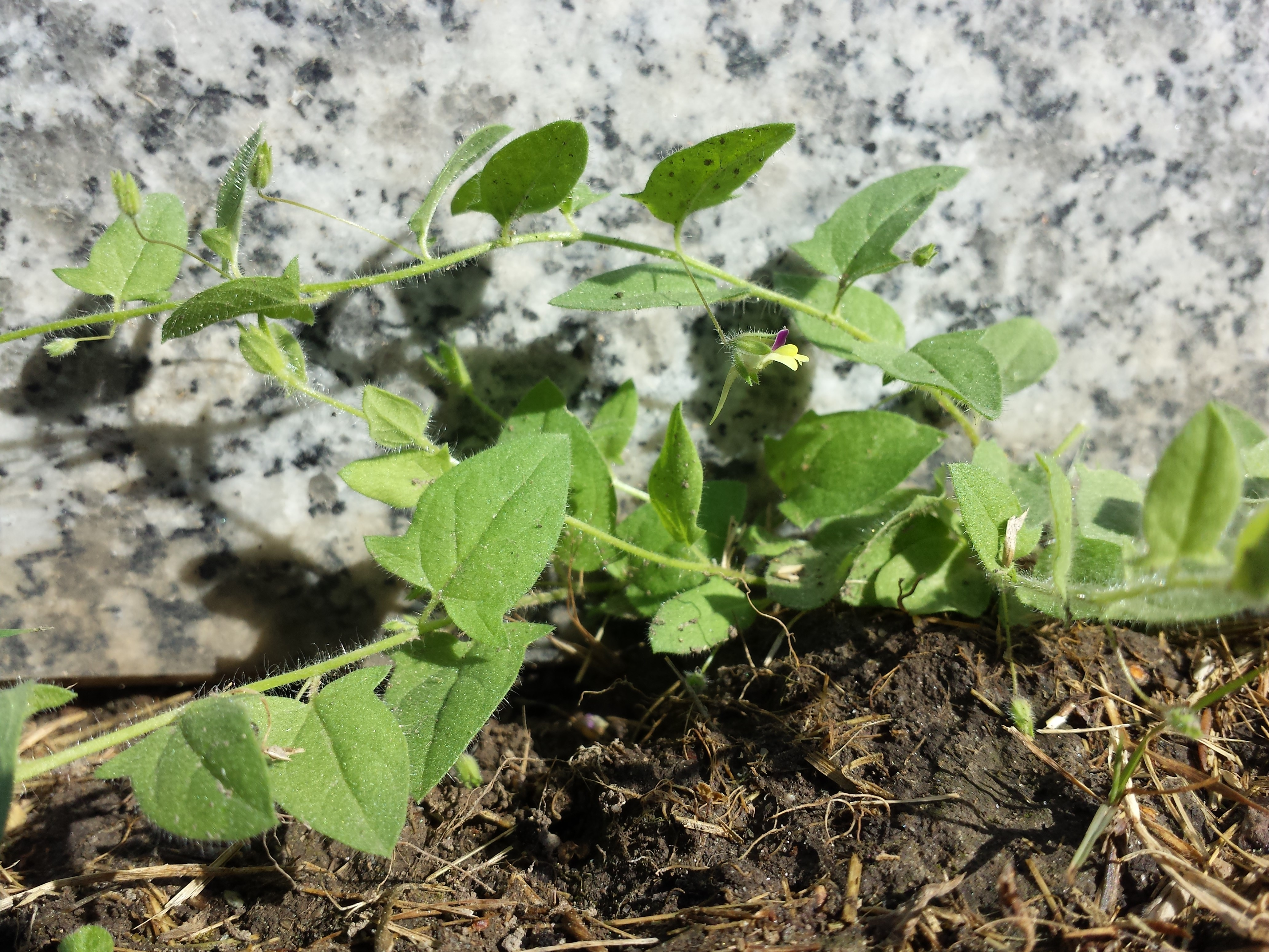 Habitus Taxonym: Kickxia elatine ss Fischer et al. EfÖLS 2008 ISBN 978-3-85474-187-9 Location: Groß-Jedlersdorf cemetery, Vienna-Floridsdorf - ca. 160 m a.s.l. Habitat: grave